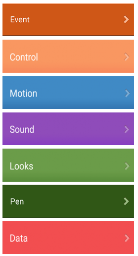 Base bricks of Pocket Code